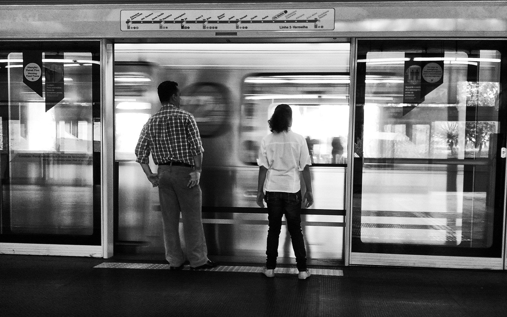 Passengers waiting to board a CAF H-Series Subway Train through the partially installed plarform screen doors of Vila Matilde station of São Paulo Subway (Metrô) System in Brazil.